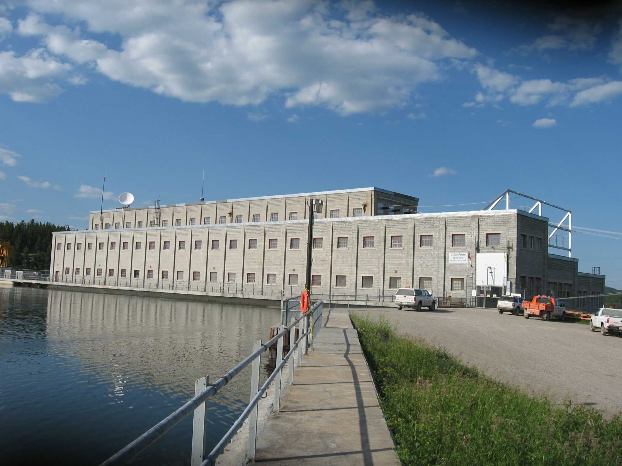 Island Falls Hydroelectric Generating Station, Saskatchewan, Canada taken July 17,2007. All my own work, released to public domain.